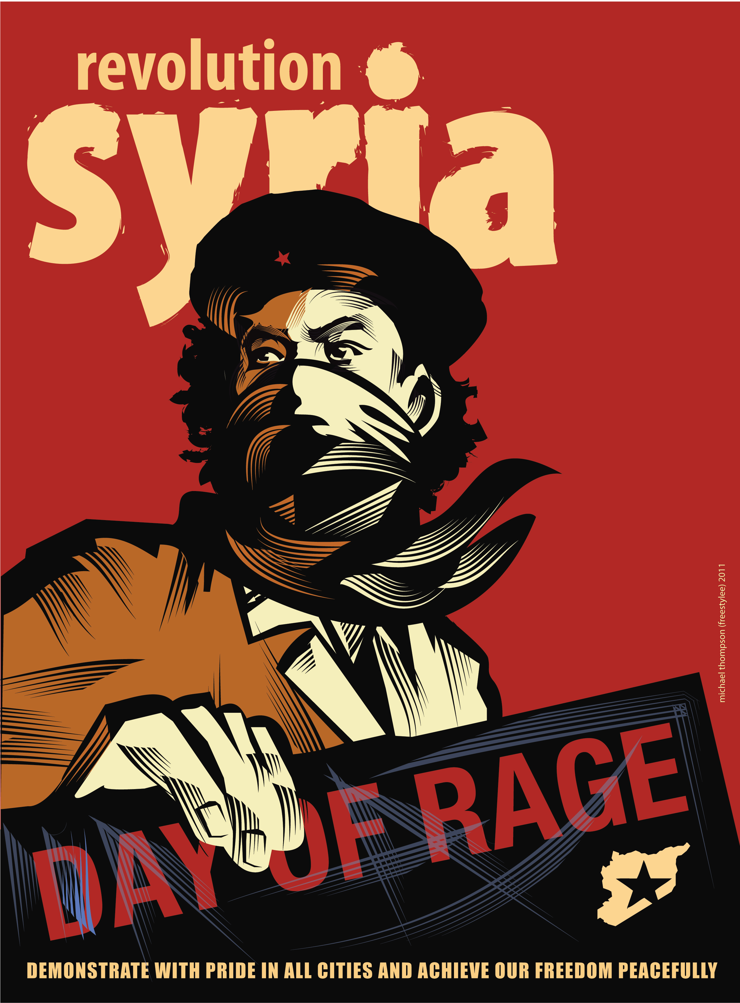 Syrians are organising campaigns on Facebook and Twitter which call for a “day of rage” in the capital Damascus this week, taking inspiration from Egypt and Tunisia in using social networking sites to rally their followers for sweeping political reforms. Like Egypt and Tunisia, Syria suffers from corruption, poverty and unemployment, and all three nations have seen subsidy cuts on staples such as bread and oil. Syria’s authoritarian president has resisted calls for political freedoms and jailed critics of his regime. The main Syrian protest page on Facebook is urging people to protest in Damascus and other cities on March 25 in “a day of rage”, with the goal to “end the state of emergency in Syria and end corruption”. The number of people who have joined Facebook and Twitter pages calling for protests on Friday and Saturday is still relatively small, and some are believed to live outside the country Bob Marley revolution Region in Revolution